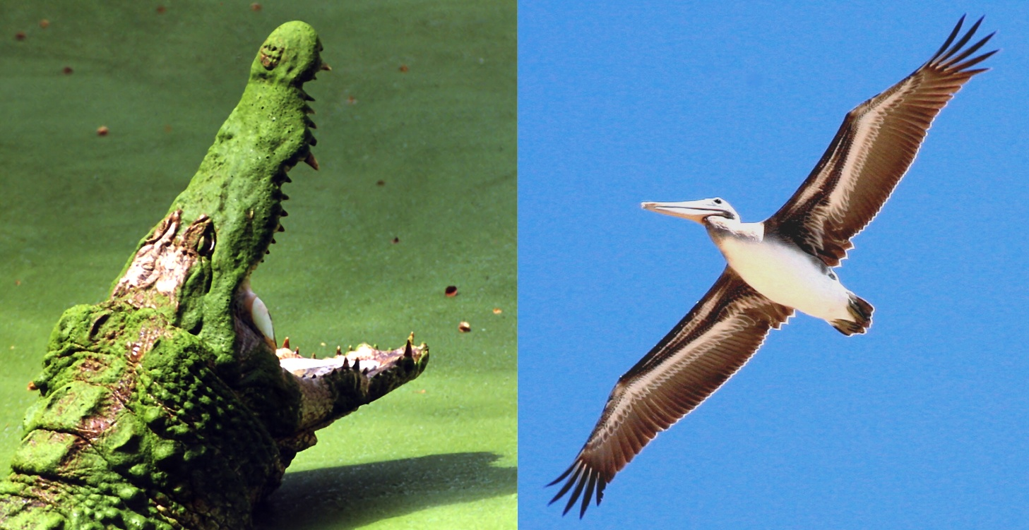 Crocodilians and birds are the recent archosaurs.